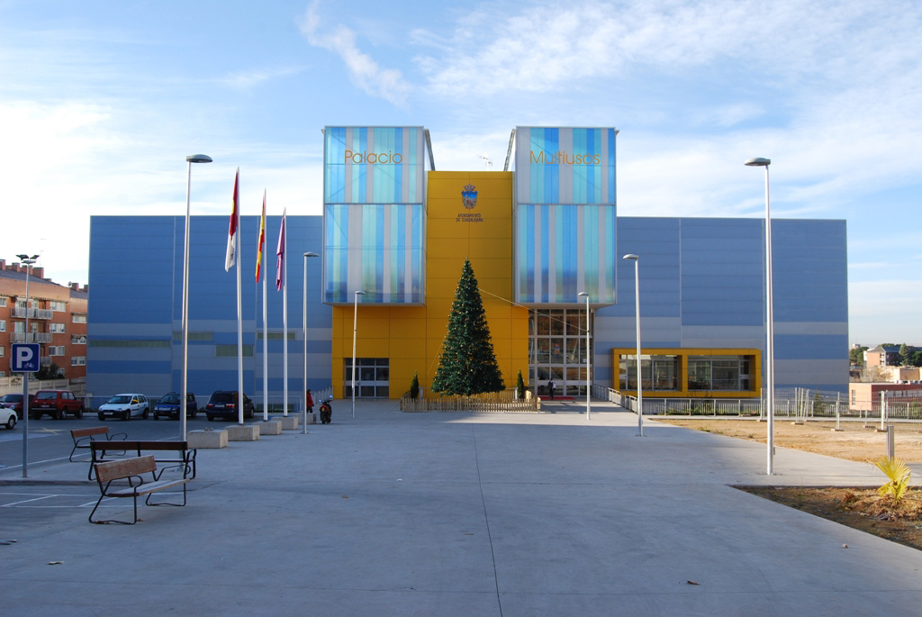 Front entrance to the Sports Center of Guadalajara, Spain.